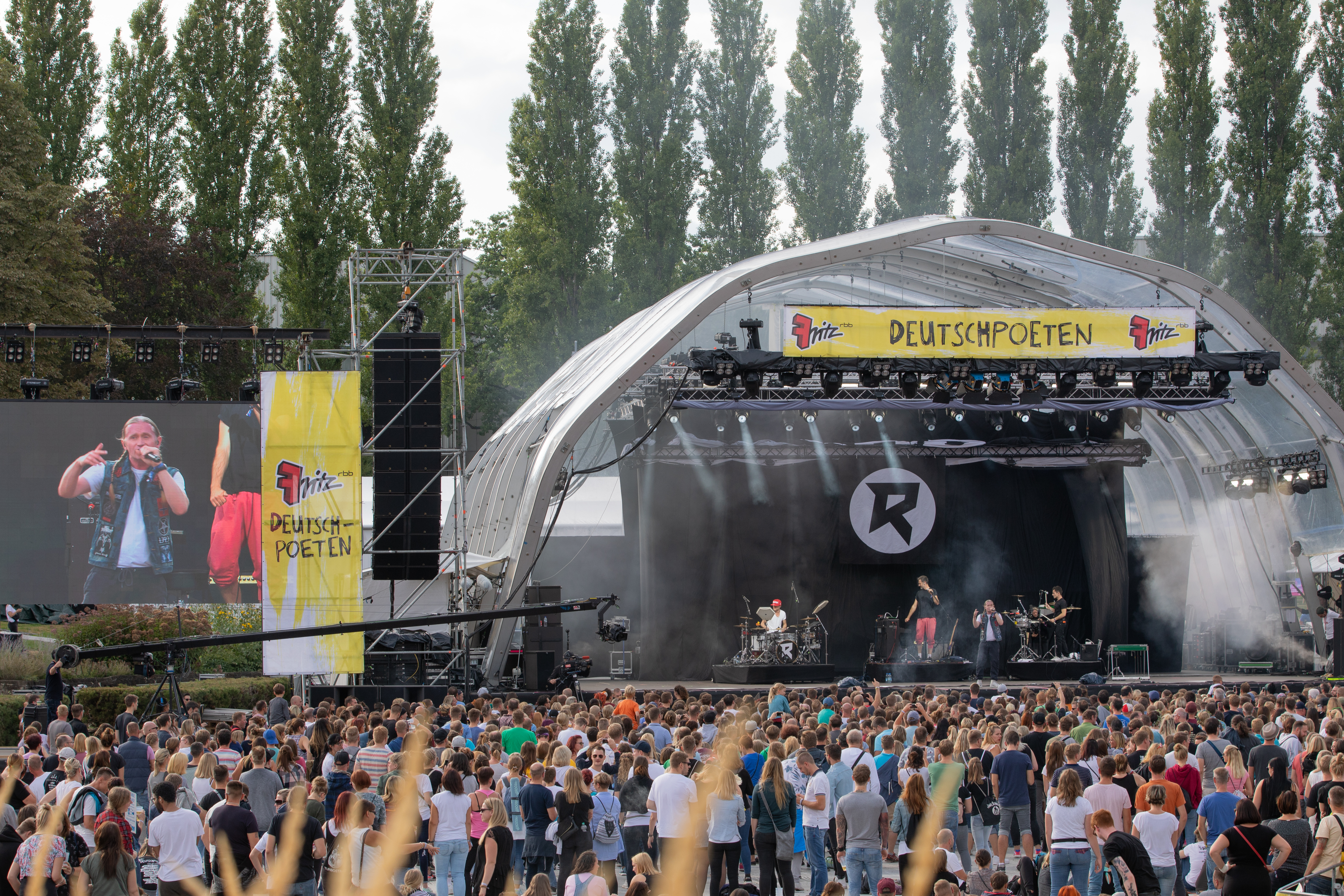 Romano at Fritz DeutschPoeten 2018